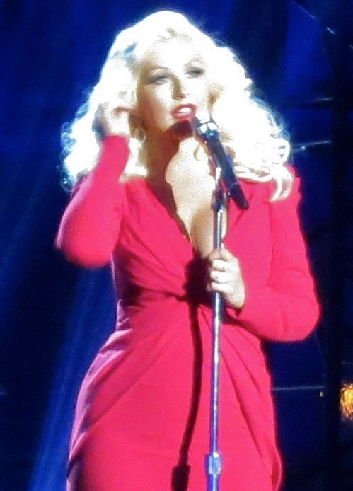 Christina Aguilera Singing Beautiful to the Breakthrough Prize Scientists.